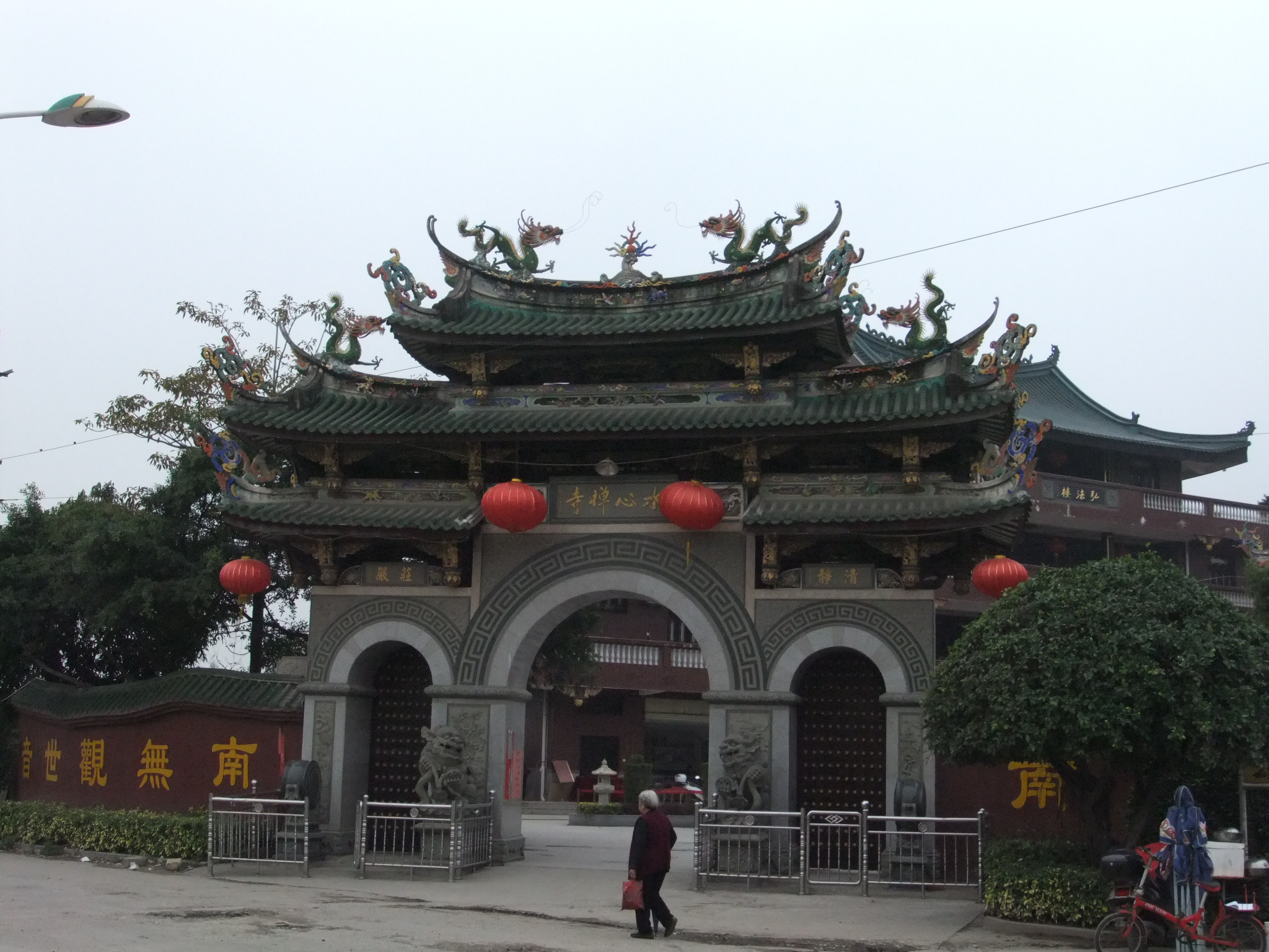 Shuixin Zen Temple (Shuixin Chan Si) in Anhai Town, near the eastern end of the famous Anping Bridge. The area to the east of the temple has recently been cleared, the old-fashioned neighborhood that used to be there being comletely demolished, presumably for the sake of new development. Just a single pagoda stands in that empty expanse now.